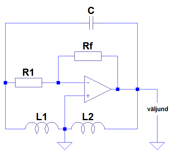 Joonis 4. Hartley ostsillaator kasutades operatsioonvõimendit